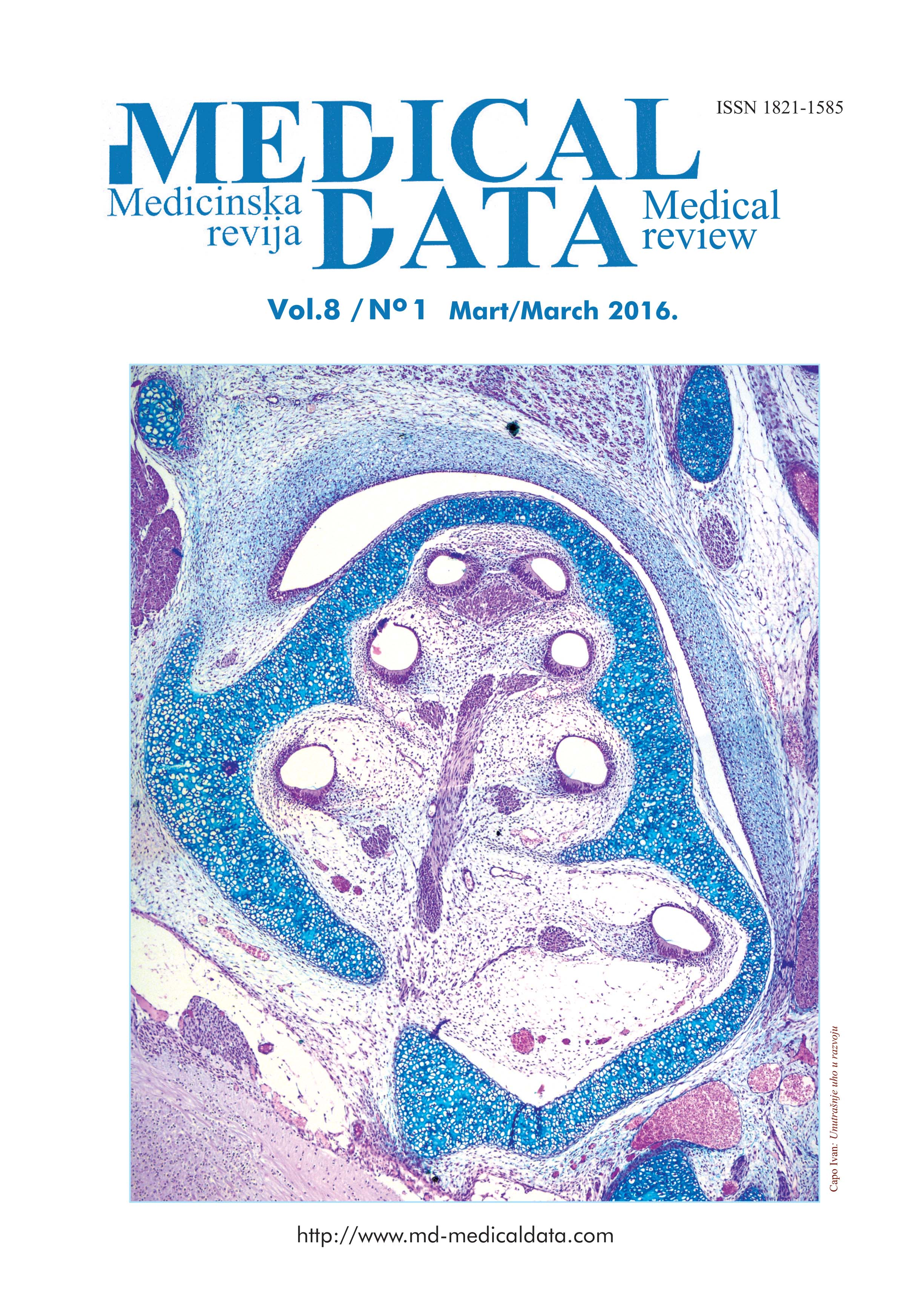 Cover of Serbian scientific journal Medical Data